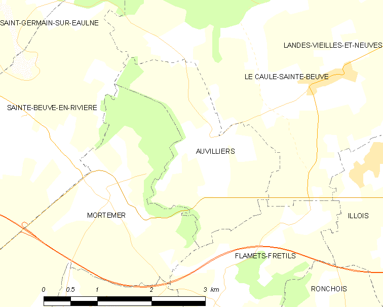 Map of French municipality Auvilliers